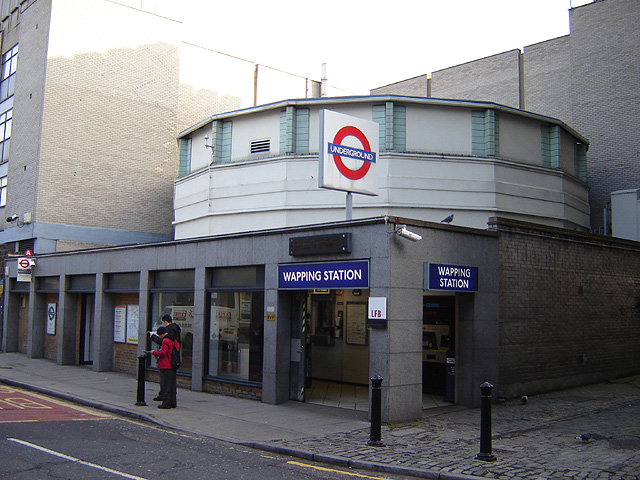 Wapping Tube Station, Tower Hamlets, London. 6 January 2006. Photographer: Fin Fahey.